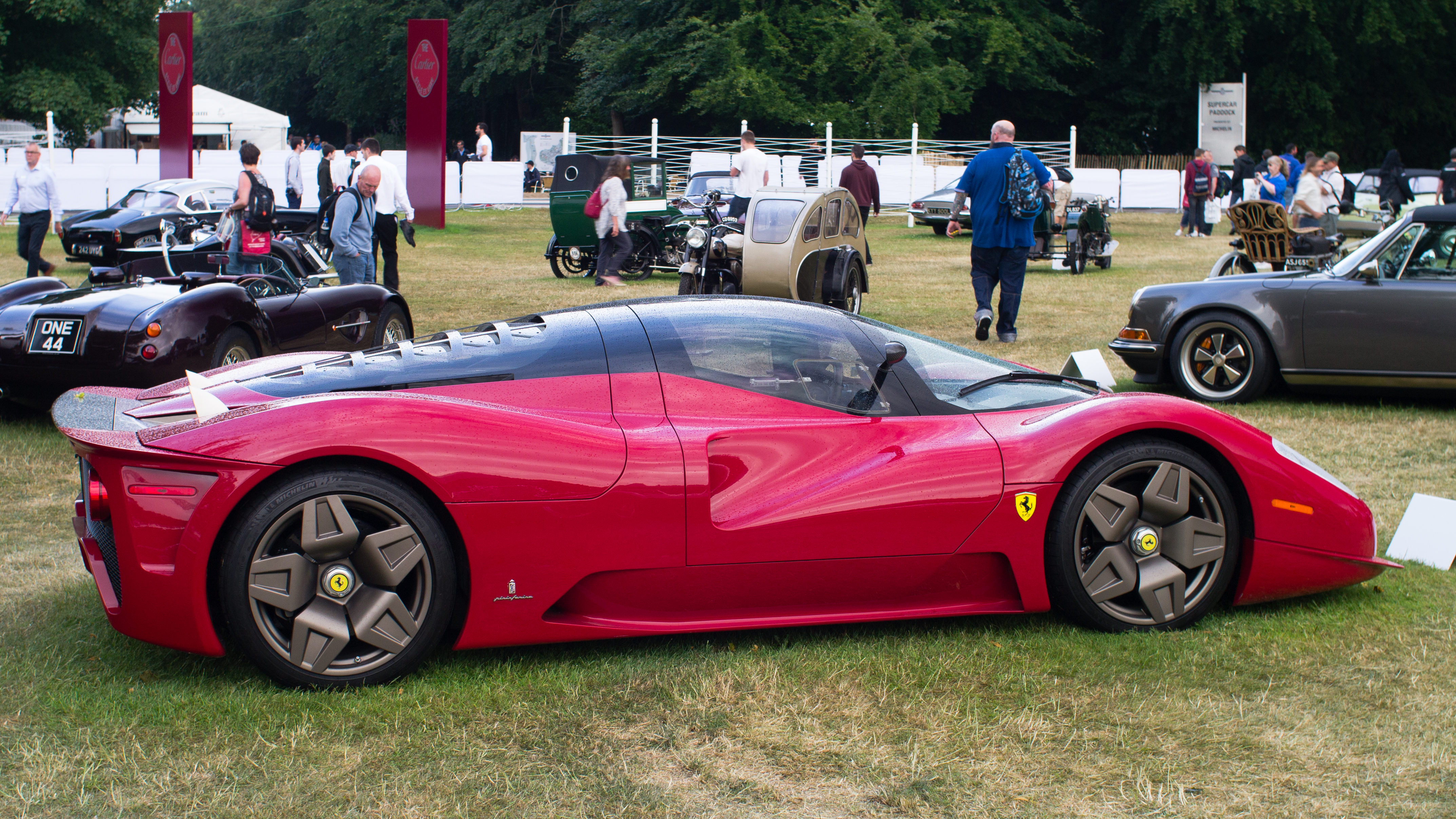 2006 Ferrari P4/5 by Pininfarina at the Goodwood Festival of Speed 2015.